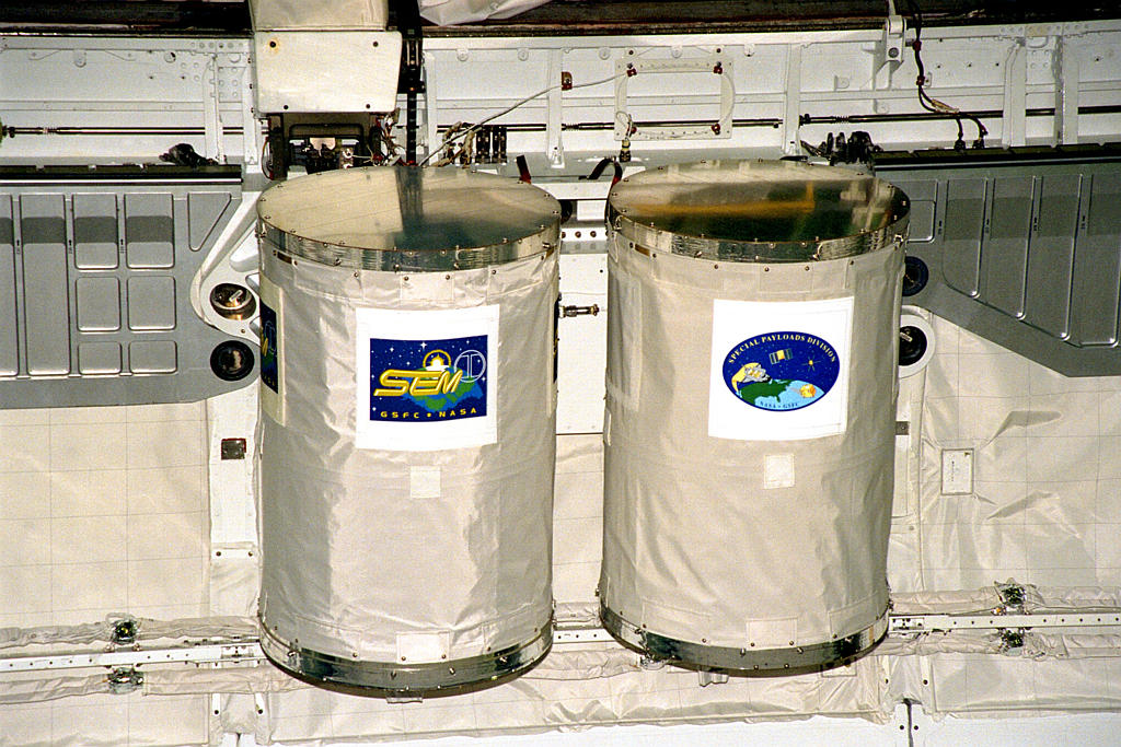 Processing activities for STS-91 continue in KSC's Orbiter Processing Facility Bay 2. Two Get Away Special (GAS) canisters are shown after their installation into Discovery's payload bay. The GAS canister on the left houses the Space Experiment Module (SEM-03), part of an educational initiative of NASA's Shuttle Small Payloads Project. On the right is a canister containing commemorative flags to be flown during the mission. STS-91 is scheduled to launch aboard the Space Shuttle Discovery for the ninth and final docking with the Russian Space Station Mir from KSC's Launch Pad 39A on June 2 with a launch window opening around 6:04 p.m. EDT.